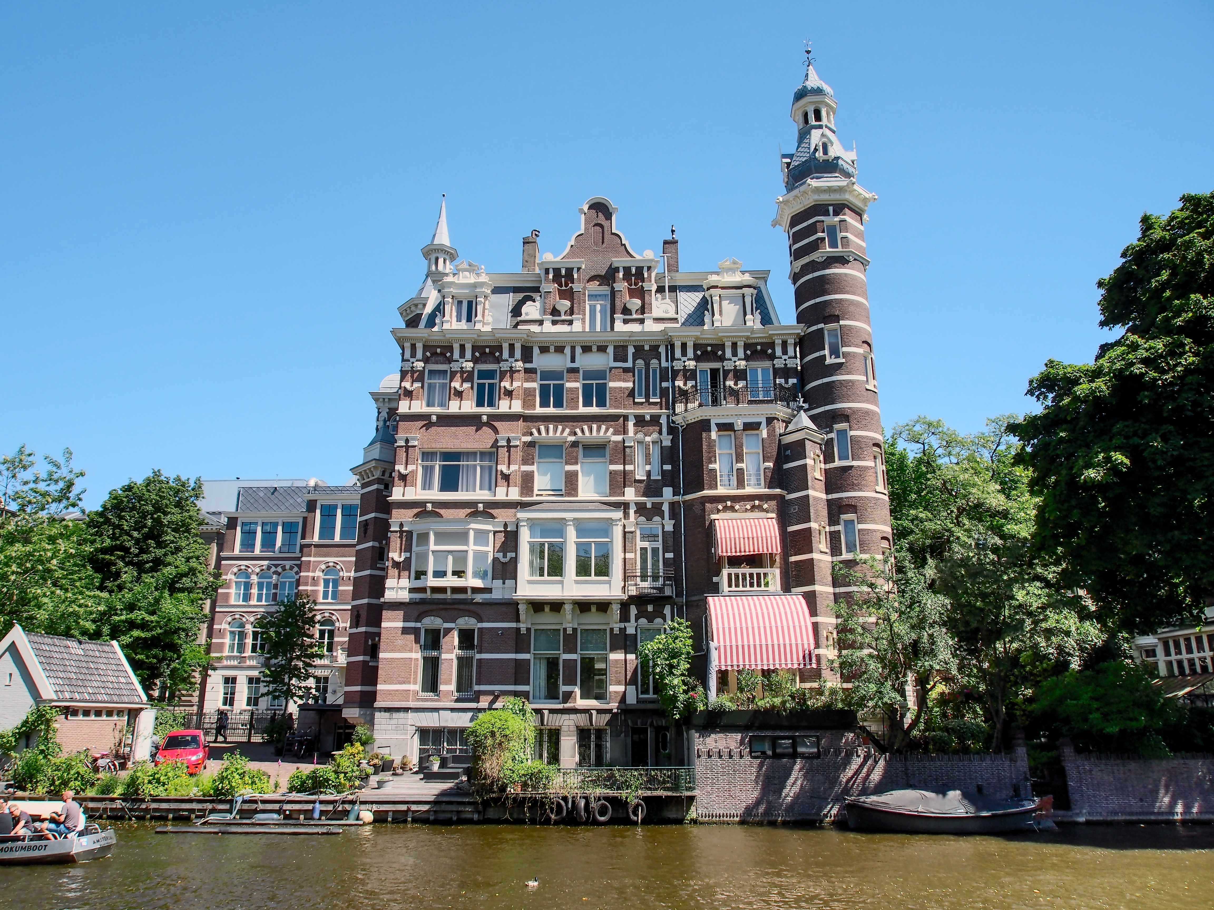 Photographed at Amsterdam, The Netherlands.